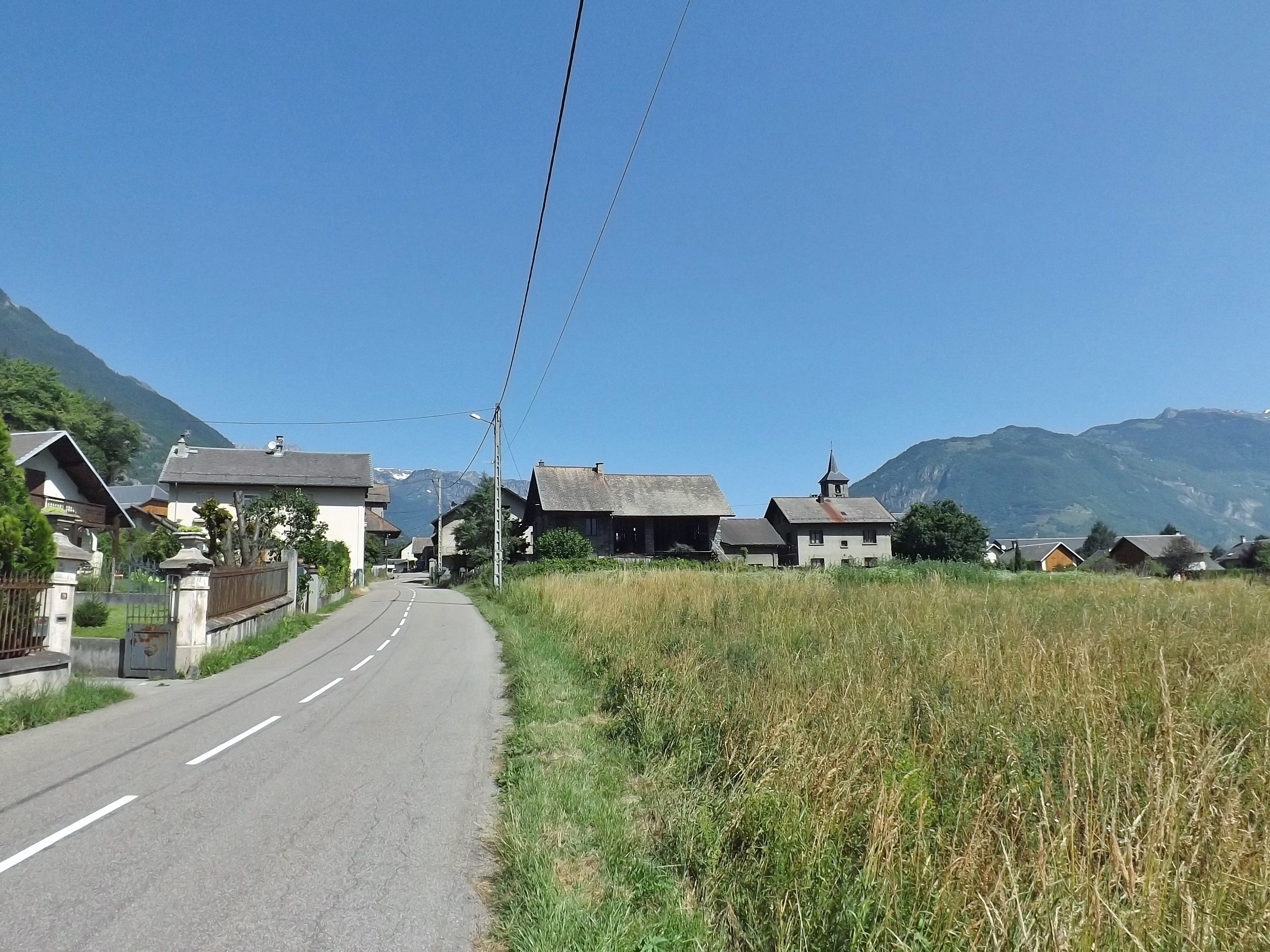 Sight of the main hamlet of the French commune of Sainte-Marie de Cuines, in the Maurienne valley, in Savoie.